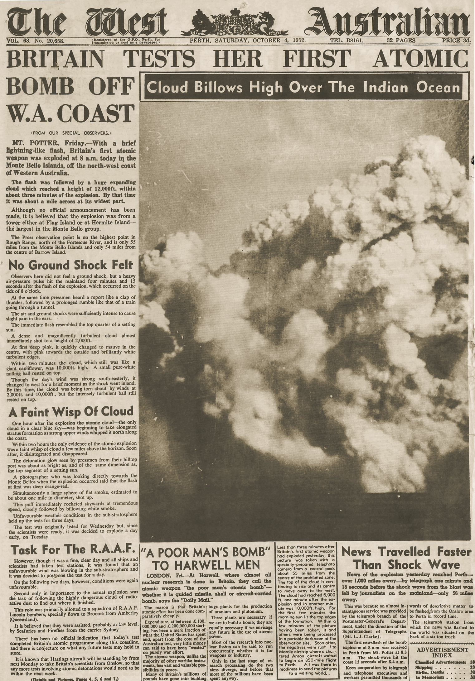 Front page of West Australian newspaper from 4 October 1952. Original image scanned in two parts then stitched by uploader.